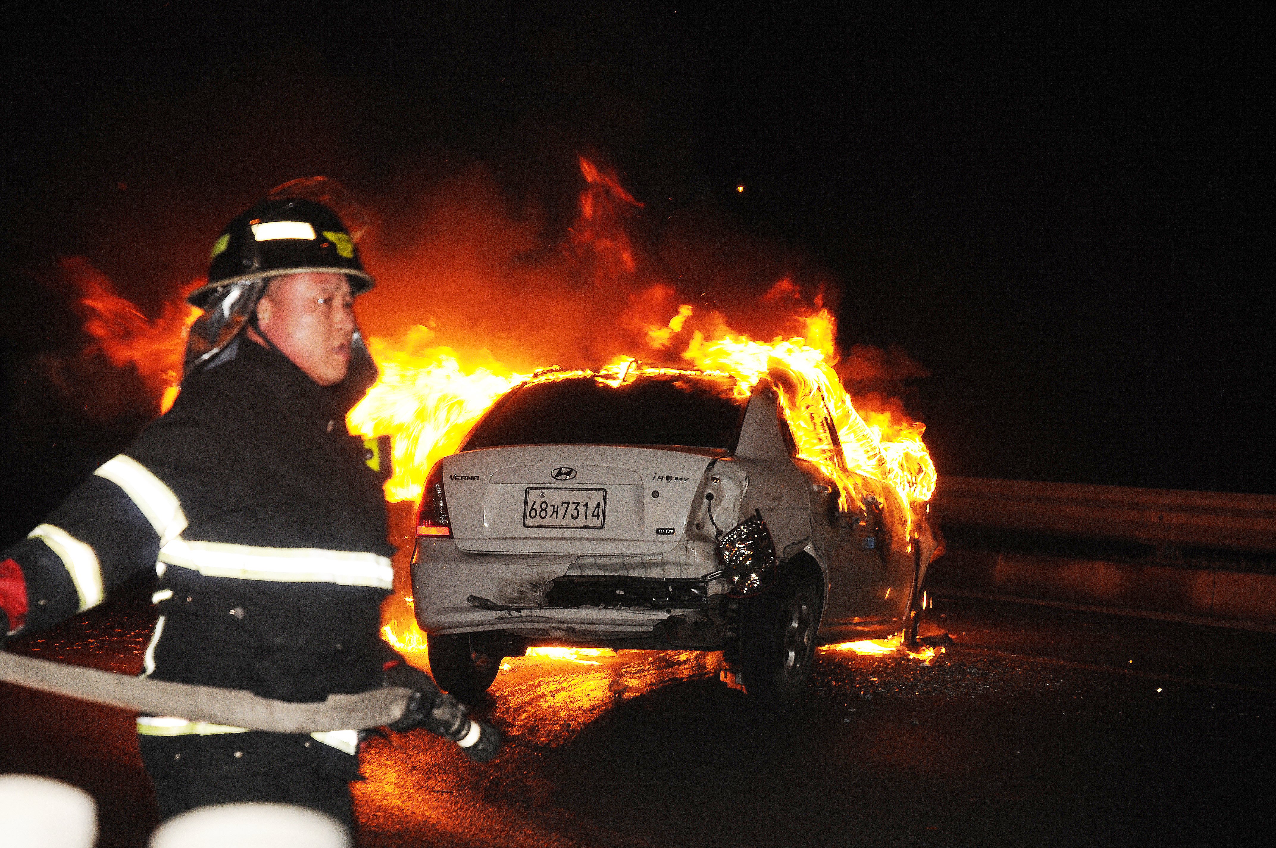 2000년대 초반 서울소방 소방공무원(소방관) 활동 사진